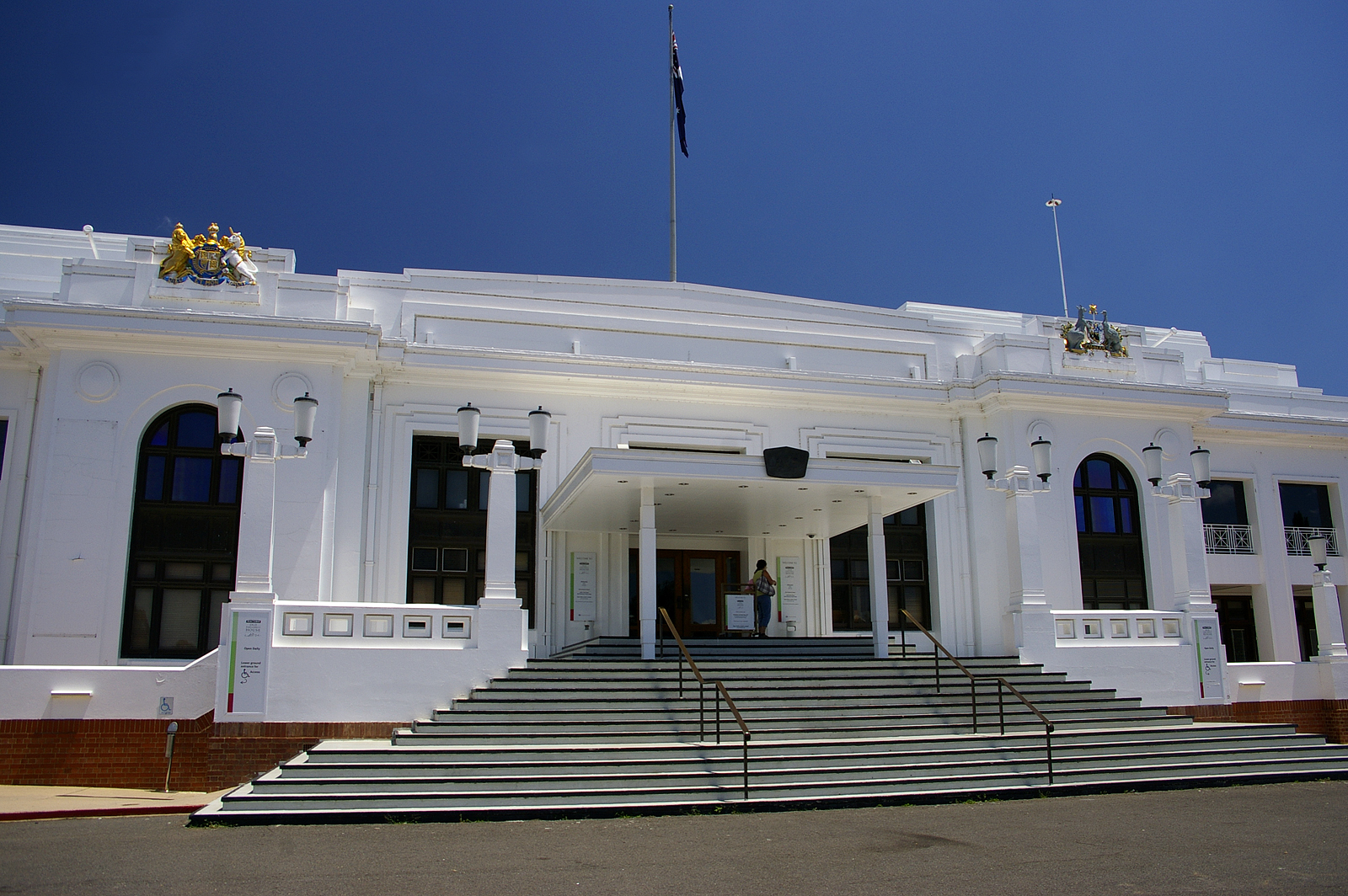 Queen Victoria Terrace entrance of Old Parliament House in Canberra, Australian Capital Territory